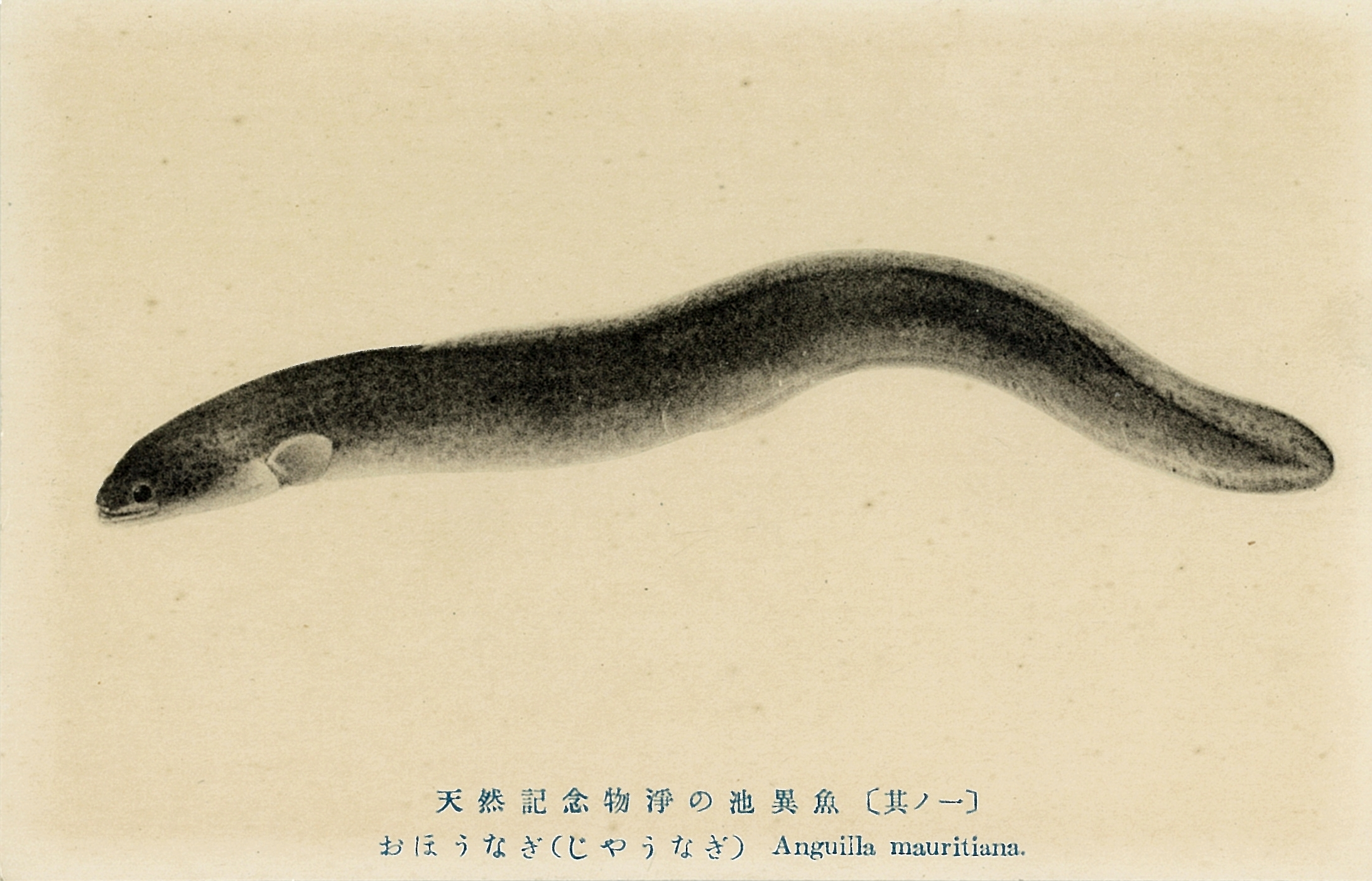 Jono-ike pond postcard. Giant mottled eel.1936